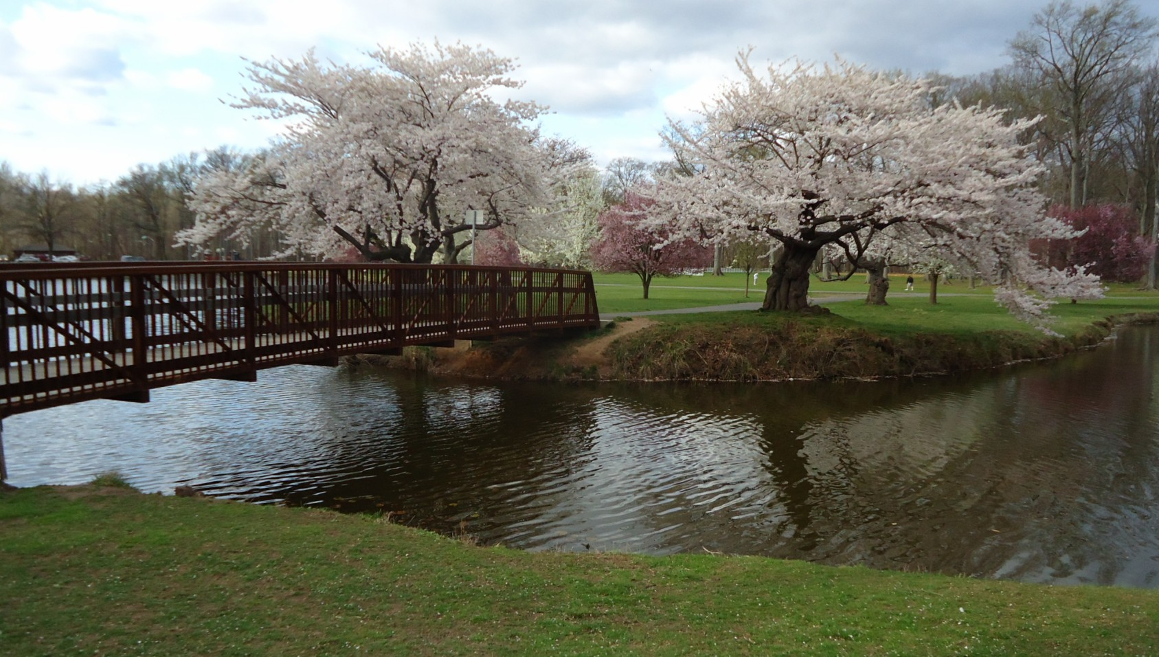 Scene from around the lake at Nomahegan Park, across the street from Union County College, in Cranford, New Jersey.